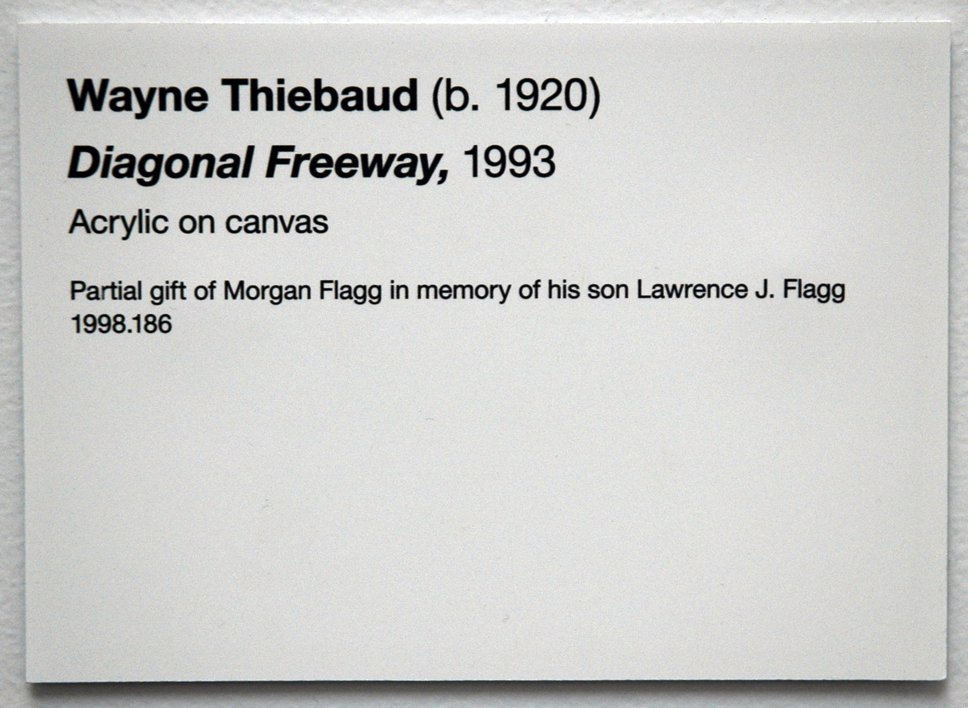 label for Wayne Thiebaud's Diagonal Freeway. From the collection of the De Young Museum in San Francisco, CA.